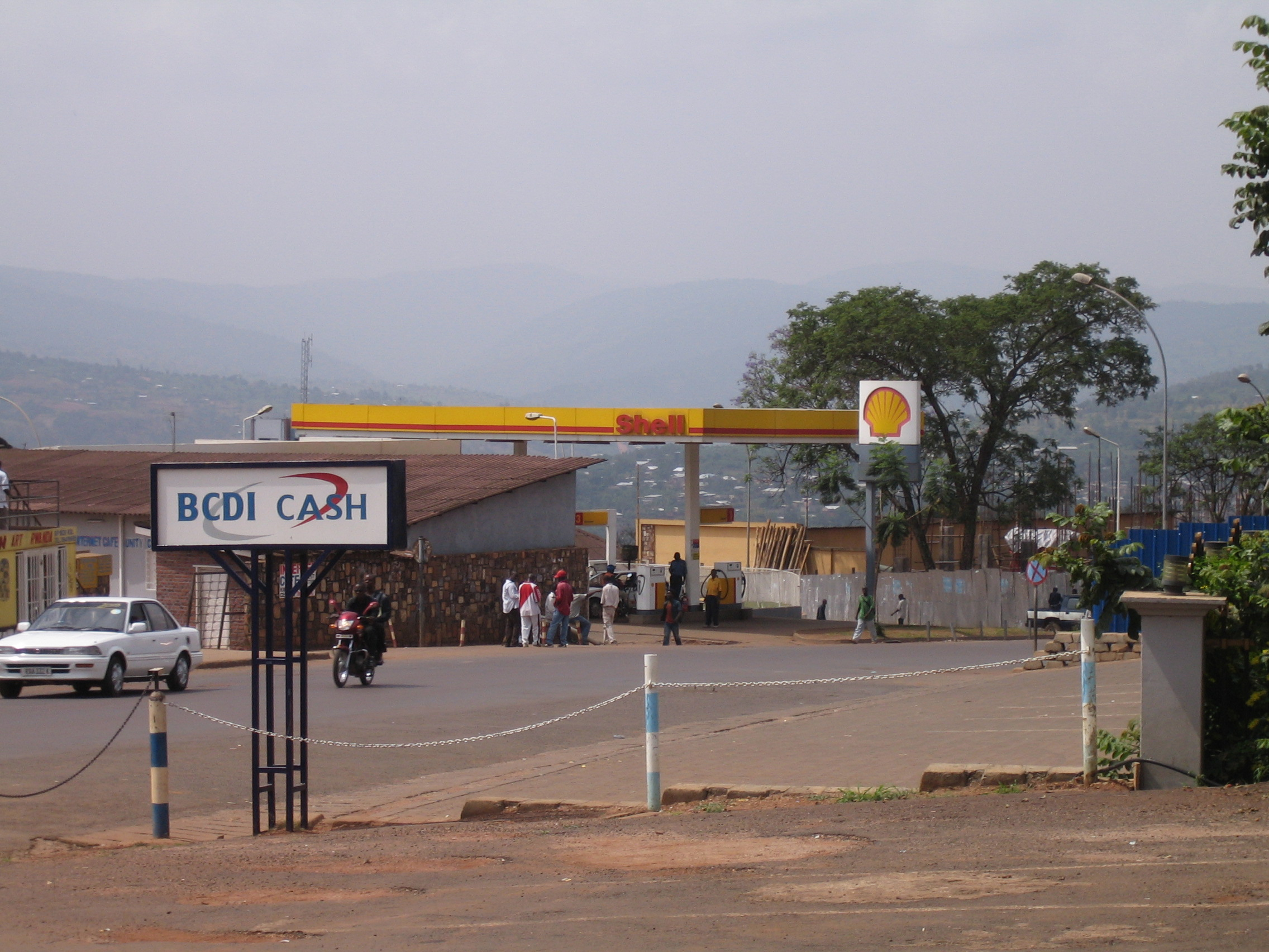 A Shell petrol station in Kigali, Rwanda